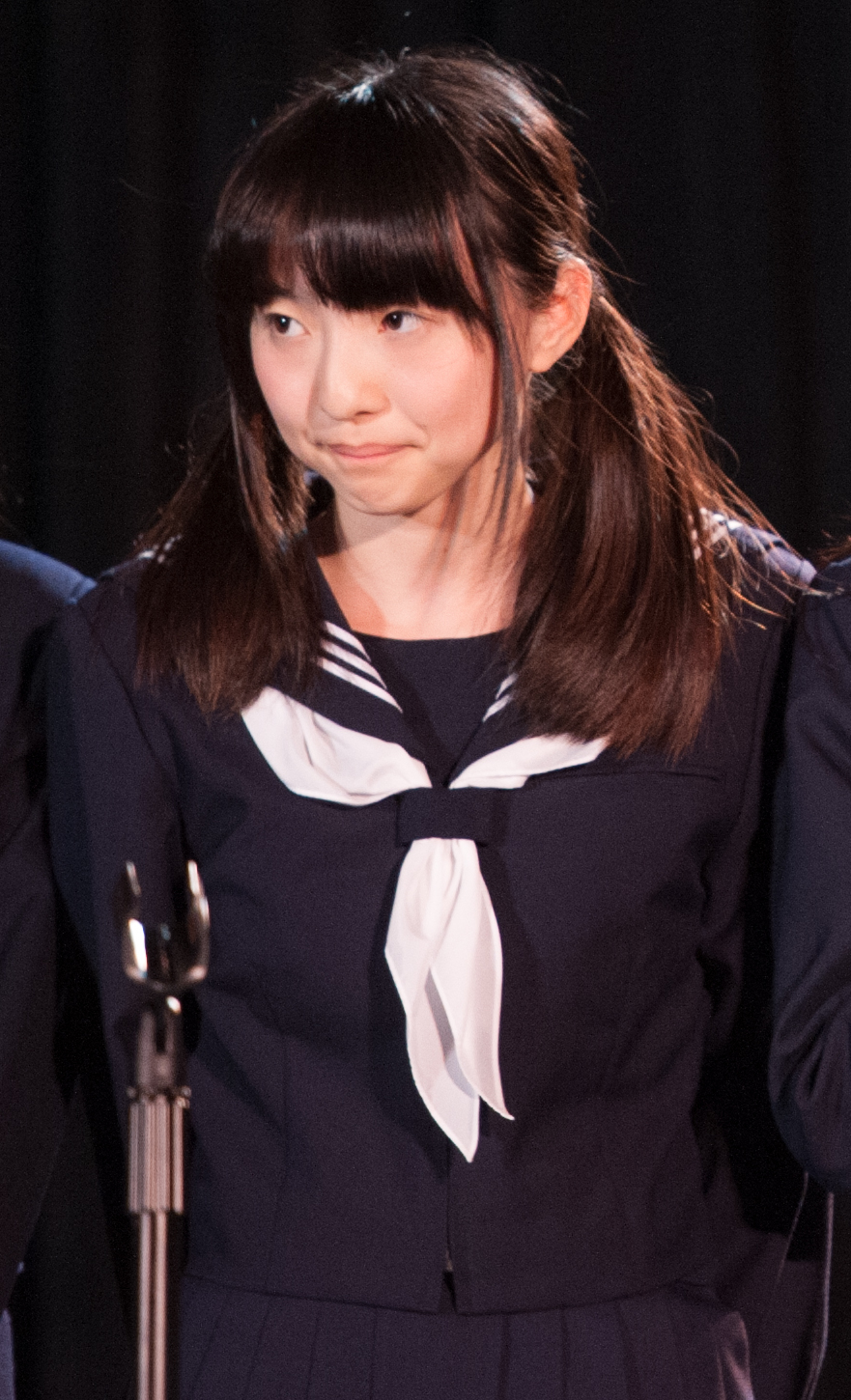 Wake Up, Girls! cast members at Anime Central 2014.